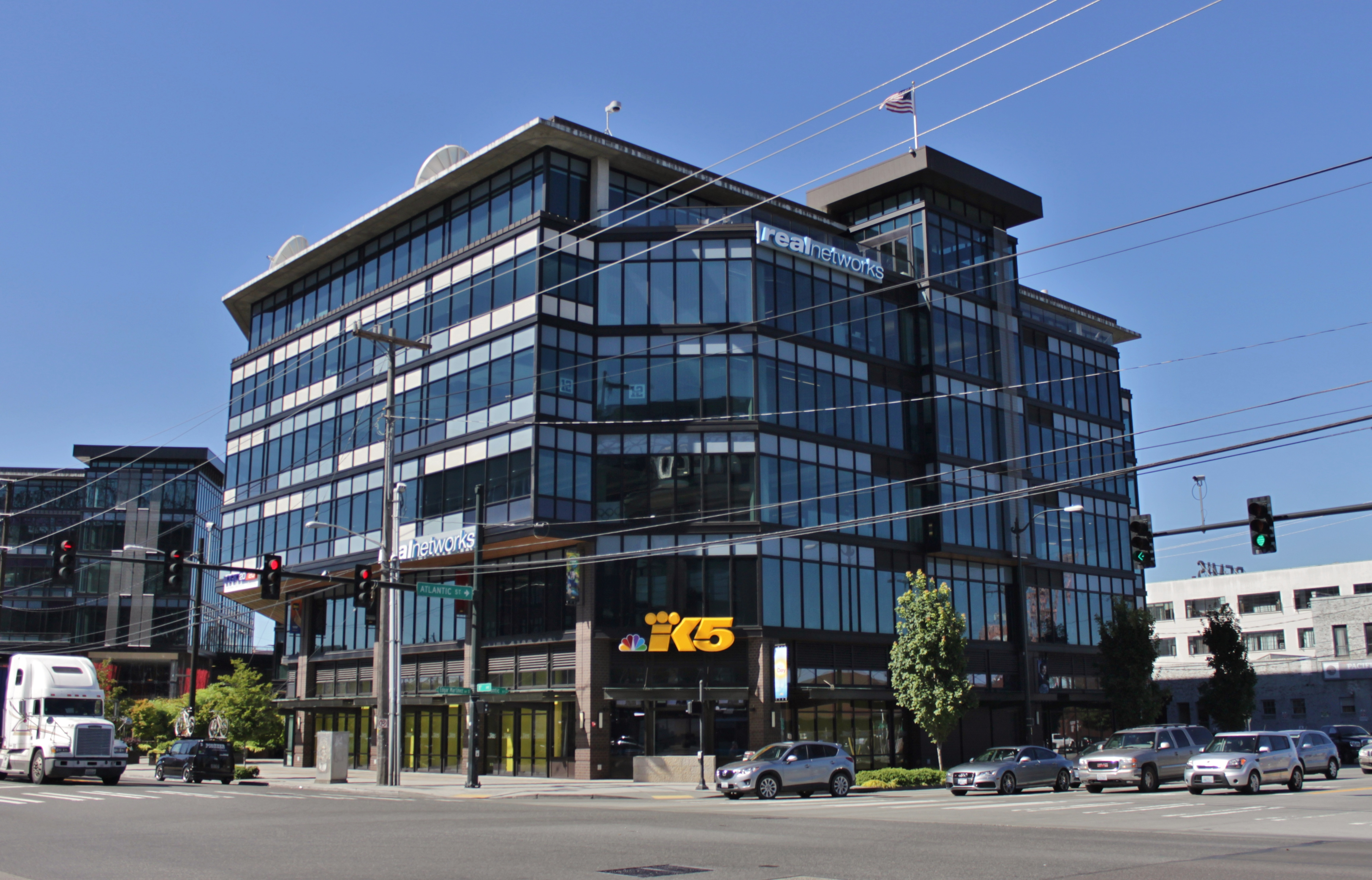 The Home Plate Center, an office building in Seattle's SODO neighborhood that houses the headquarters of Real Networks and the studios of KING 5 News.